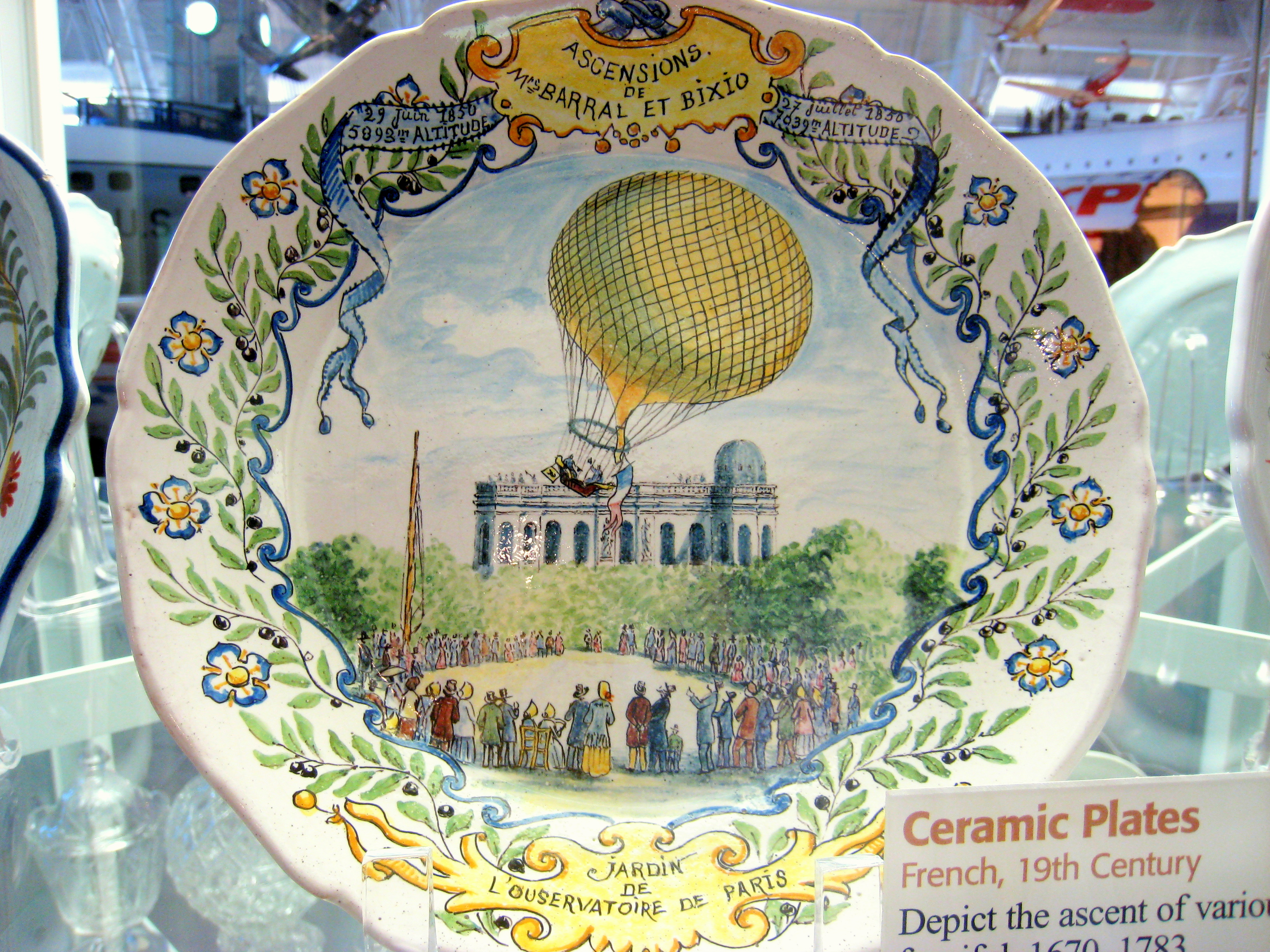 Barral and Bixio 1850 plate - Udvar-Hazy Center, Dulles International Airport, Chantilly, Virginia, USA. French plate from the 1800s. MM. Jacques Alexandre Bixio and Jean Augustin Barral made two scientific ascents. They ascended from the Paris Observatory on June 29, 1850, at 10.27 A.M., the balloon being inflated with hydrogen gas; on July 27, 1850, they repeated the experiment.